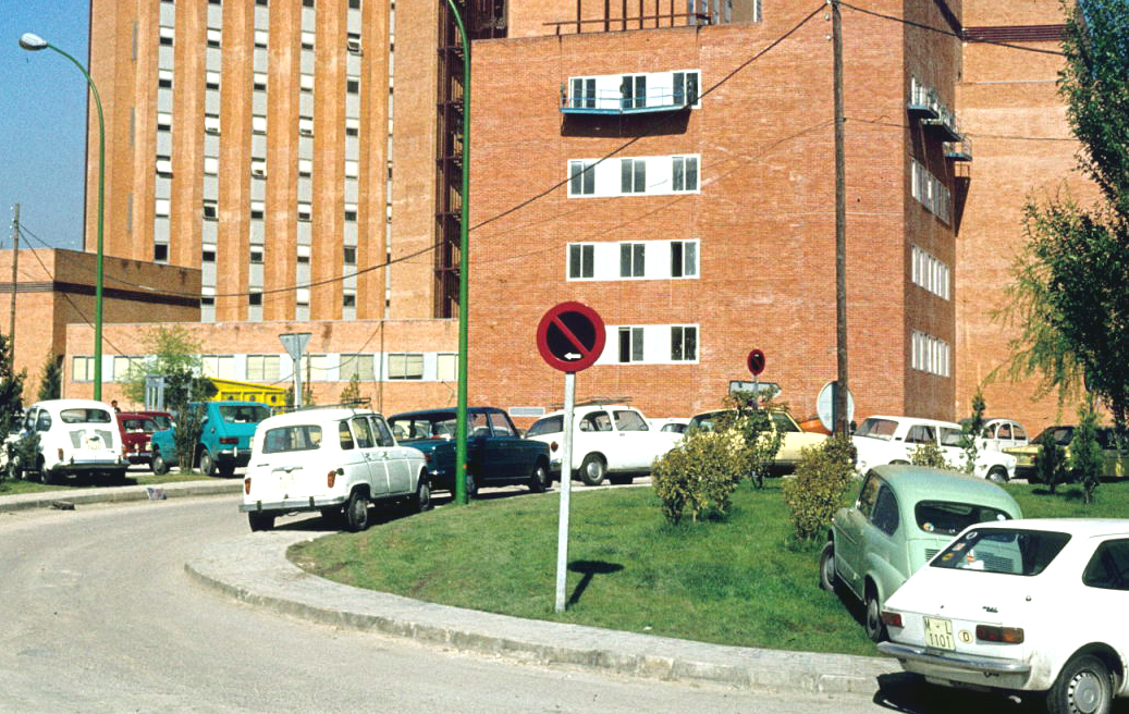 Cars parked in the gardens of "12 de Octubre" Hospital. Madrid, Spain